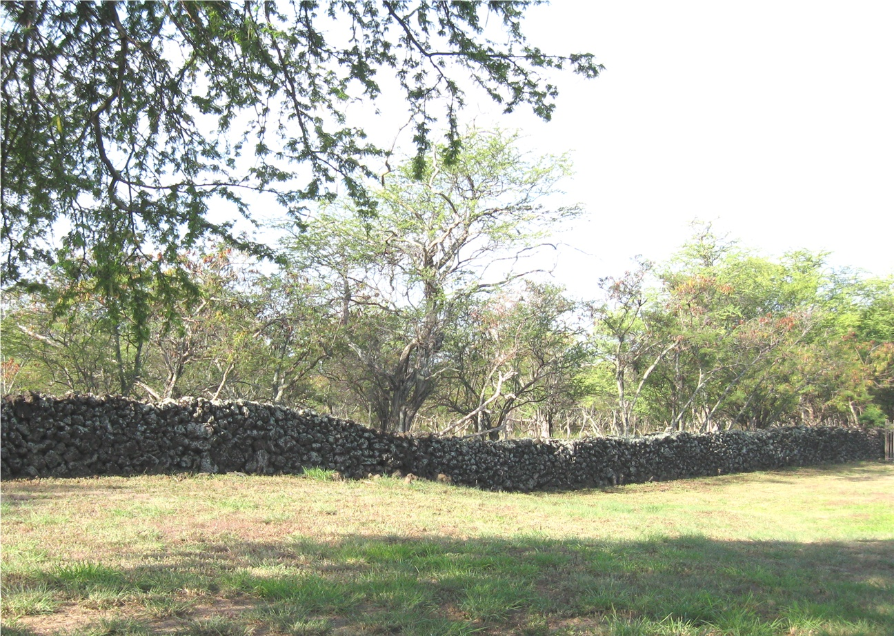 The "Great Wall of Kuakini" (Ka pā nui o Kuakini ) was built c. 1830—1840 by "John Adams" Kiiapalaoku Kuakini (1789–1844), Governor of Hawai'i Island and Oʻahu for King Kamehameha I, in the Kingdom of Hawaii. They were built/extended to stop the cattle left behind by George Vancouver from wandering through the village of Kailua. Located in Kailua-Kona, on the Big Island of Hawaiʻi.